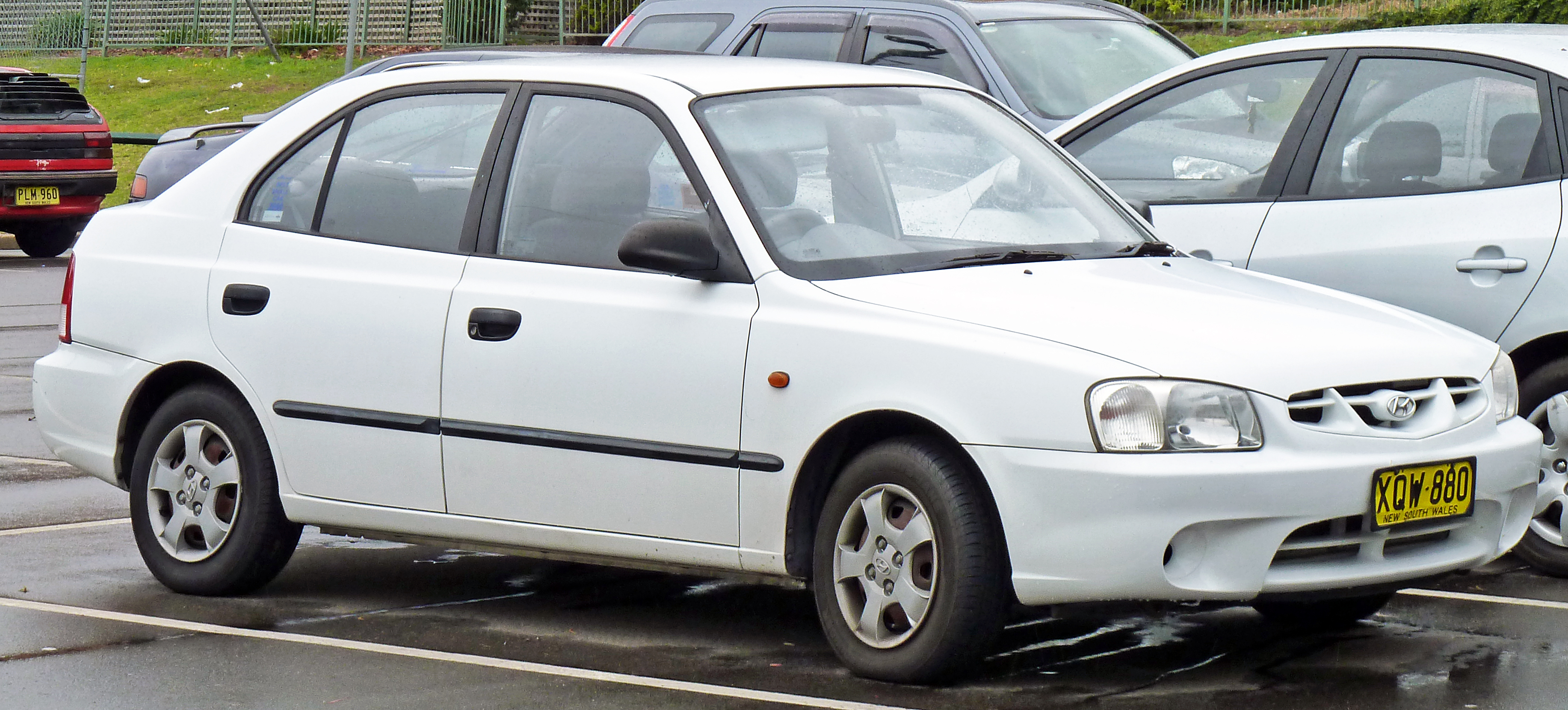 2001 Hyundai Accent (LC) GL 5-door hatchback. Photographed in Miranda, New South Wales, Australia.